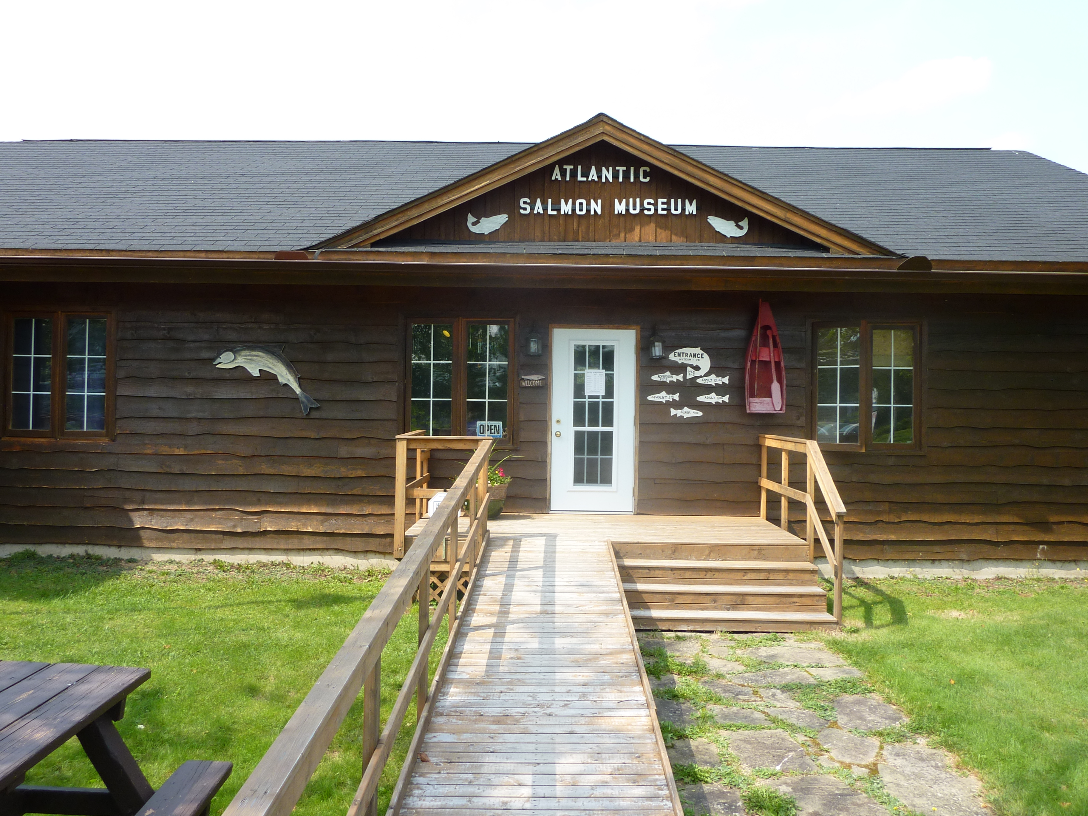 The Atlantic Salmon Museum in Doaktown, New Brunswick.